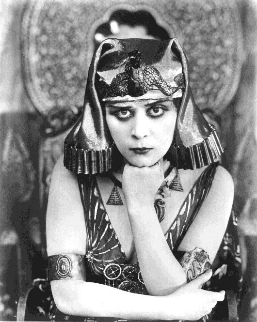 Actress Theda Bara in the title role of the American drama film Cleopatra (1917), a now lost film.